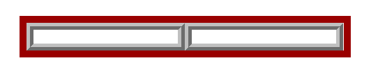 Caixa de grandària